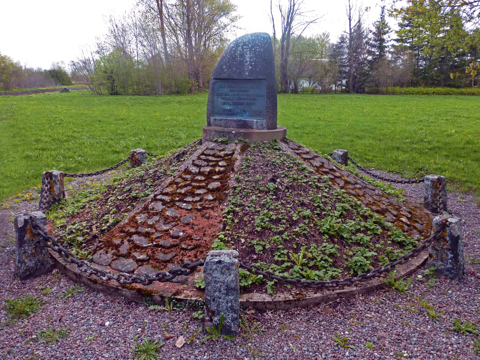 The memorial of the Utria landing in Udria village, Estonia